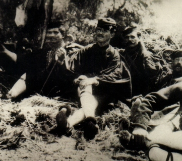 Greek andart captain Kostas Akritas (Konstantinos Mazarakis-Ainian)